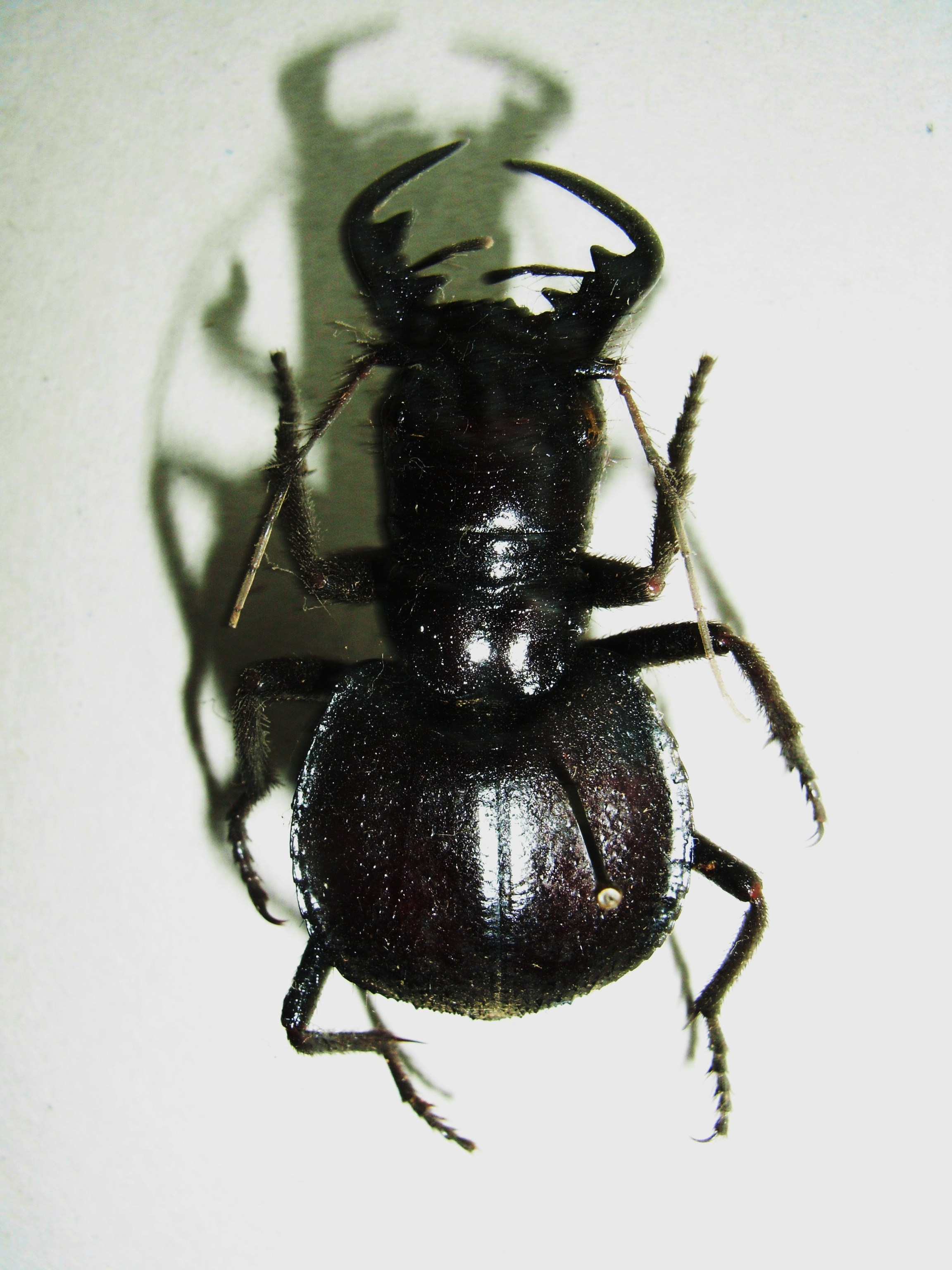 Manticora I think. I have forgotten this one